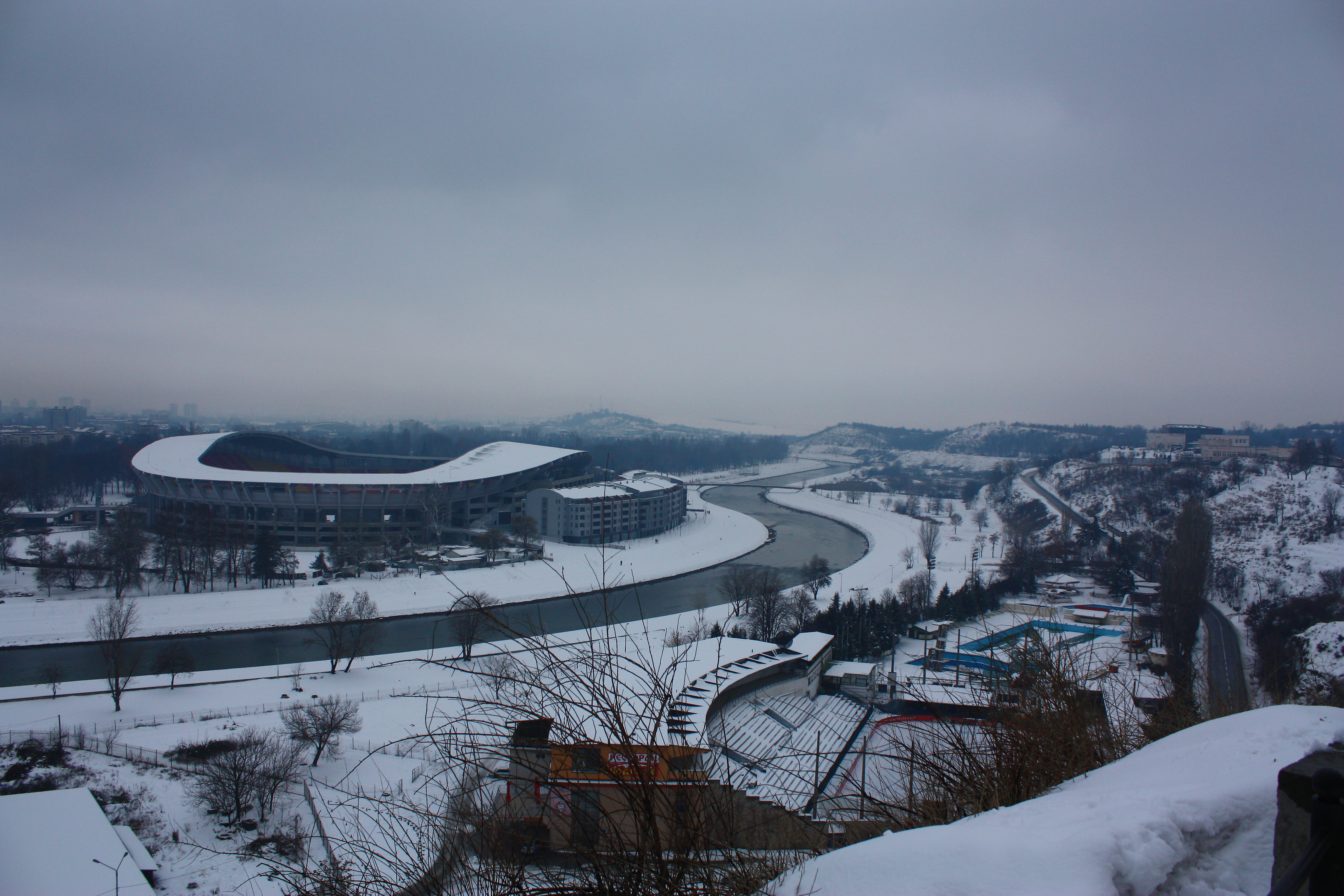 Skopje, capital and largest city of Macedonia